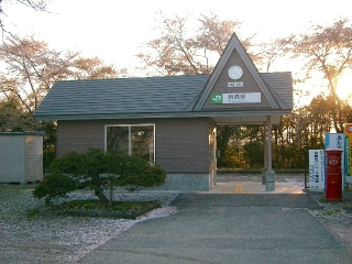 Niitsuru Station, Aizumisato, Ōnuma District, Fukushima, Japan